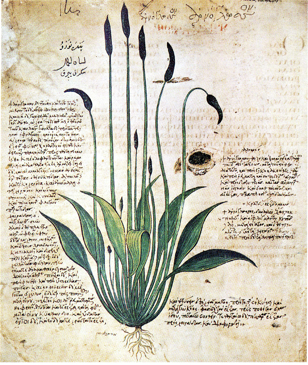 Herbal by dioscoride